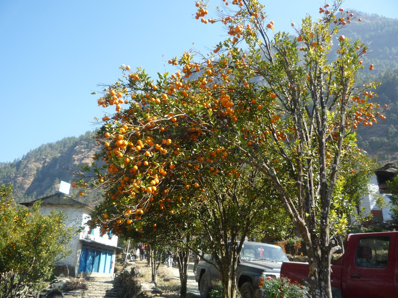 Orange cultivation in parwat district